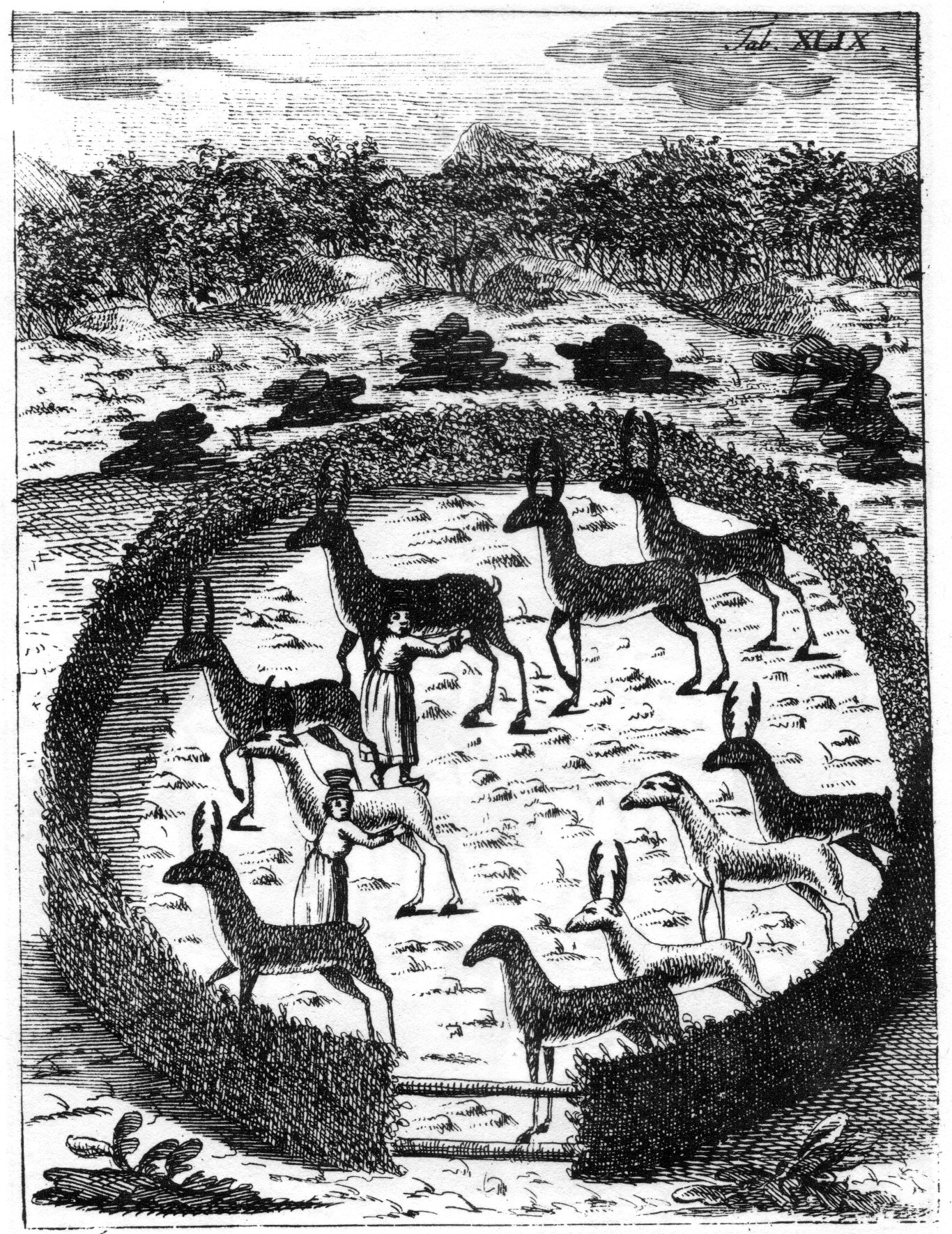 Copper carving with Sami milking reindeer in a pen.